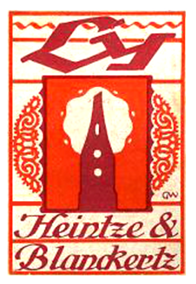 Ad for dip pens, late 19th century. Own scan.